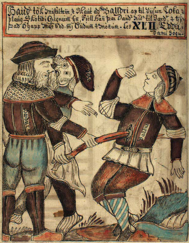 An illustration of the blind Höðr killing Baldr, from an Icelandic 18th century manuscript.